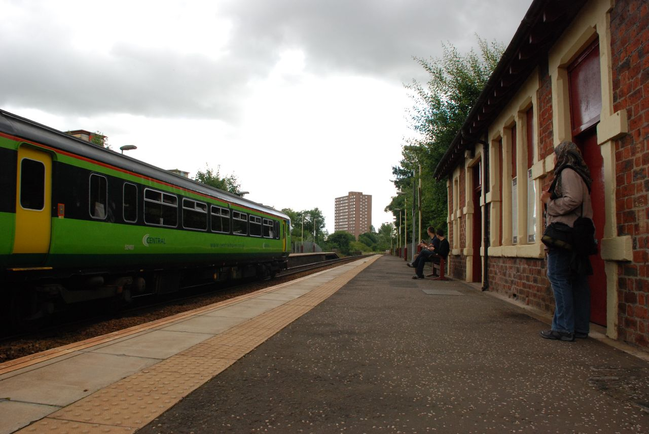 Pollokshaws West